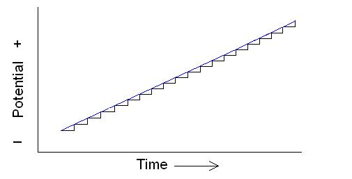 Stair-Step potential sweep (Black) and Linear Potential Sweep (Blue)